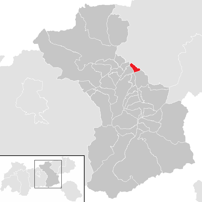 District Schwaz